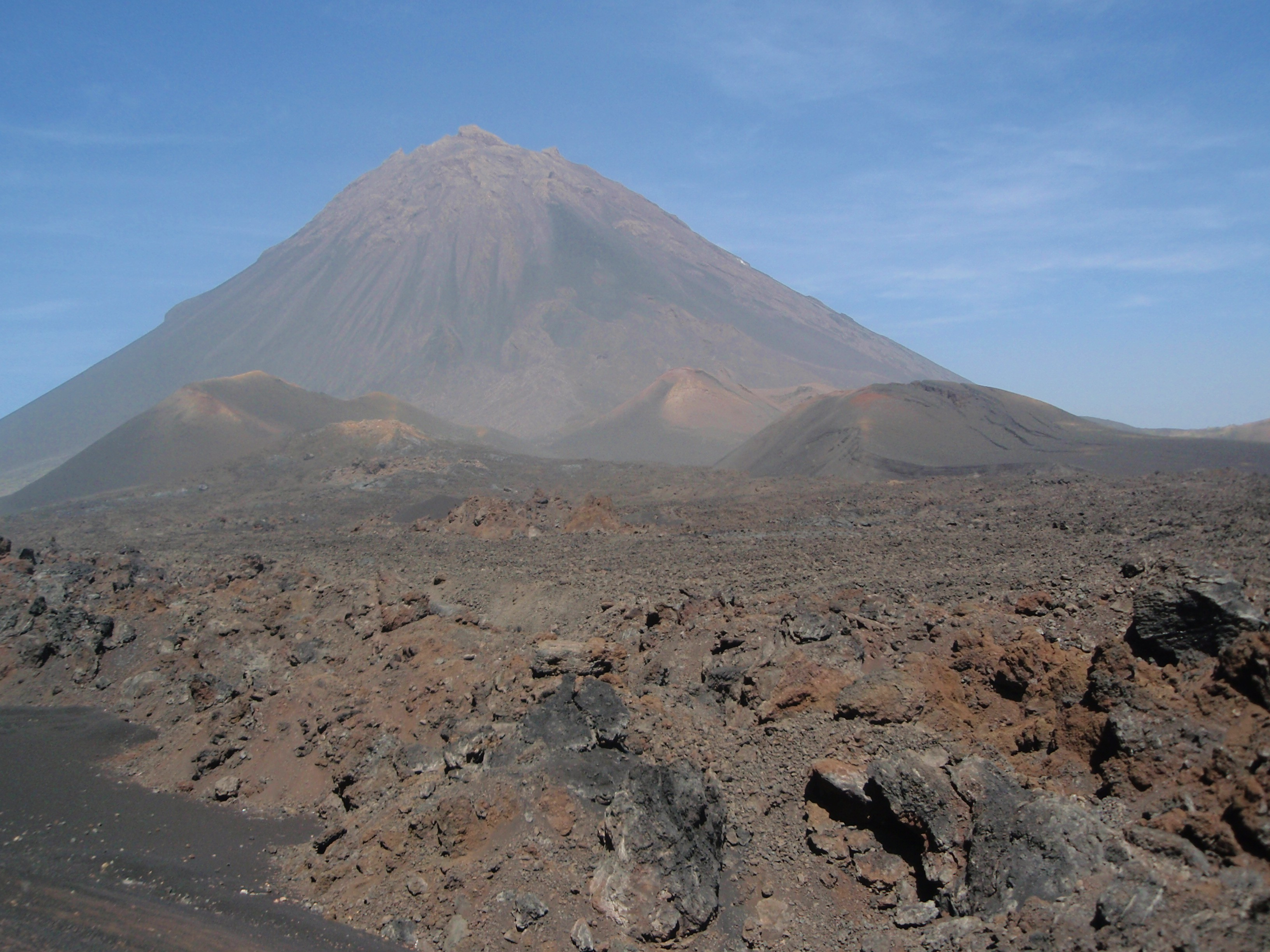 Fogo (Cape Verde)